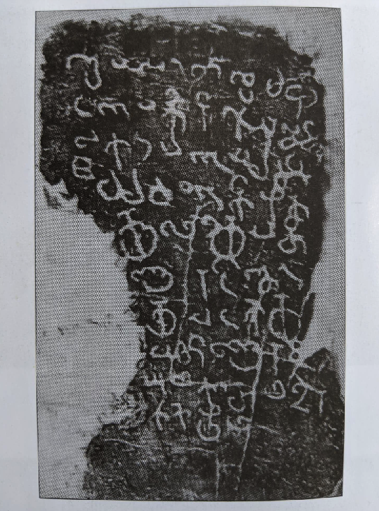 Abhayagiri tamil